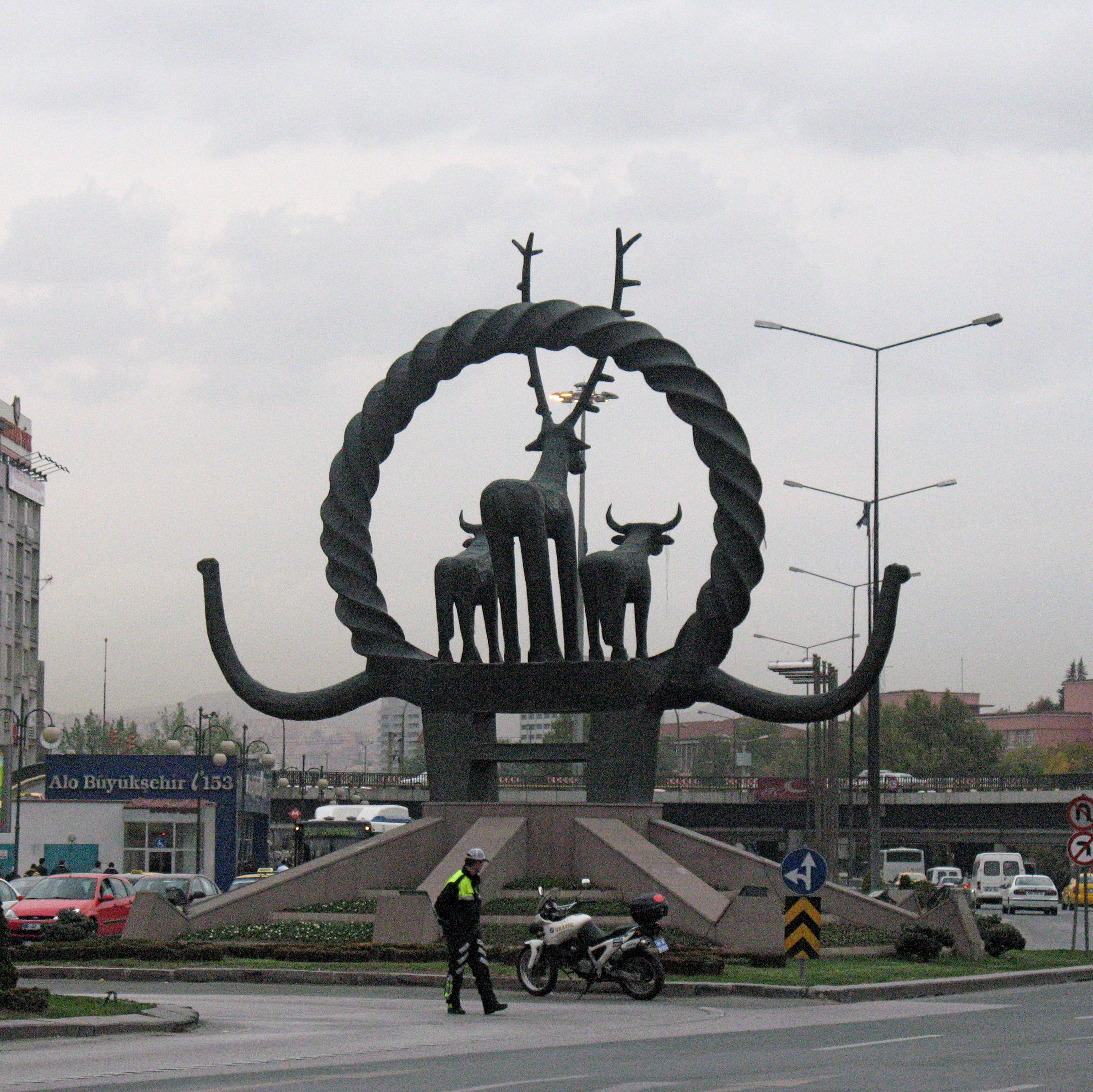 Deer Sculpture in Sıhhiye, Ankara